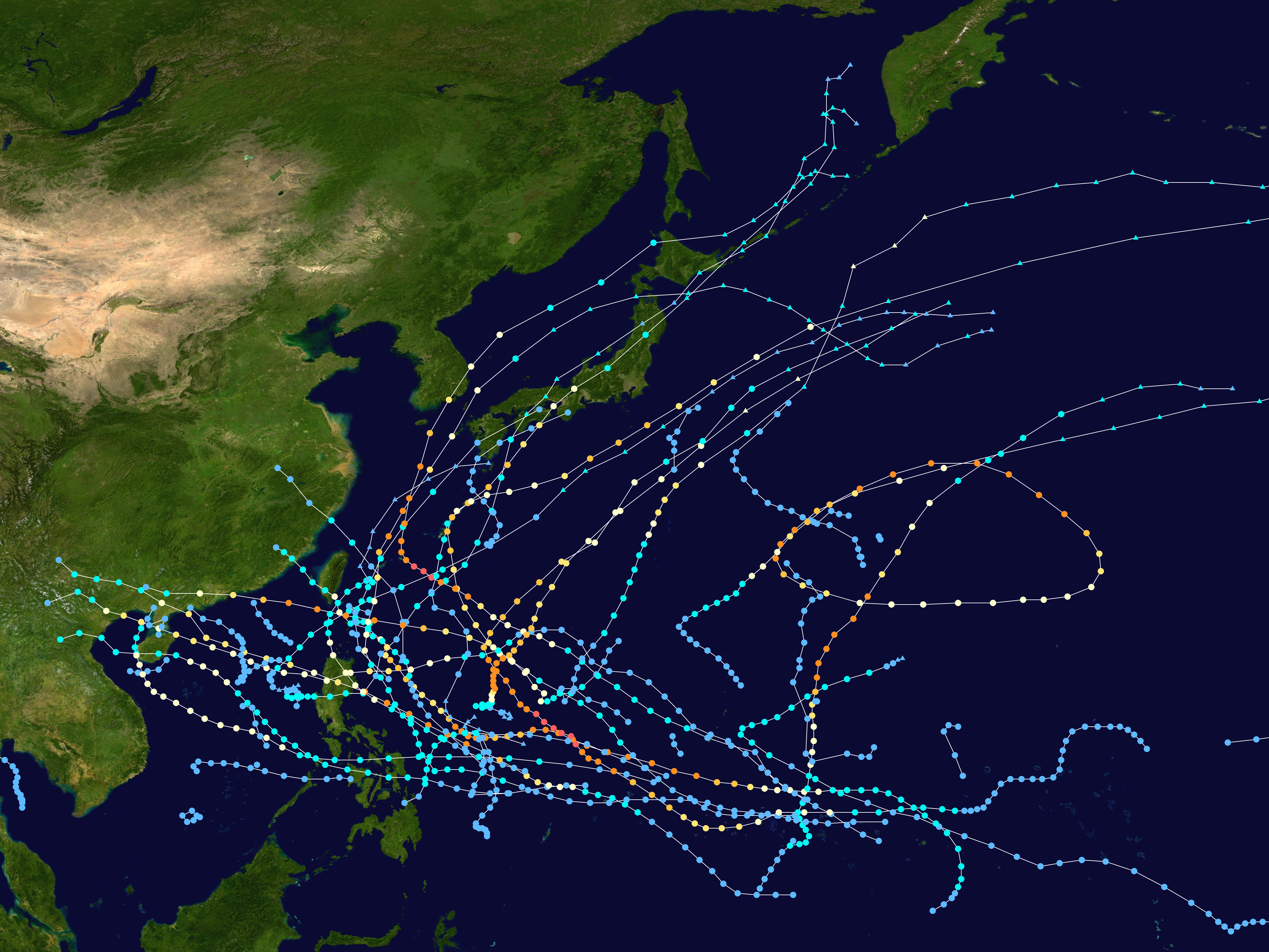 This map shows the tracks of all tropical cyclones in the 2003 Pacific typhoon season. The points show the location of each storm at 6-hour intervals. The colour represents the storm's maximum sustained wind speeds as classified in the Saffir-Simpson Hurricane Scale (see below), and the shape of the data points represent the type of the storm. Saffir–Simpson scale Tropical depression≤38 mph≤62 km/h Category 3111–129 mph178–208 km/h Tropical storm39–73 mph63–118 km/h Category 4130–156 mph209–251 km/h Category 174–95 mph119–153 km/h Category 5≥157 mph≥252 km/h Category 296–110 mph154–177 km/h Unknown Storm type Tropical cyclone Subtropical cyclone Extratropical cyclone / Remnant low / Tropical disturbance / Monsoon depression